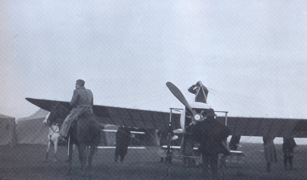 Serbian Royal Air Force. Aeroplane on Trupale airfild at Niš 1912/13.